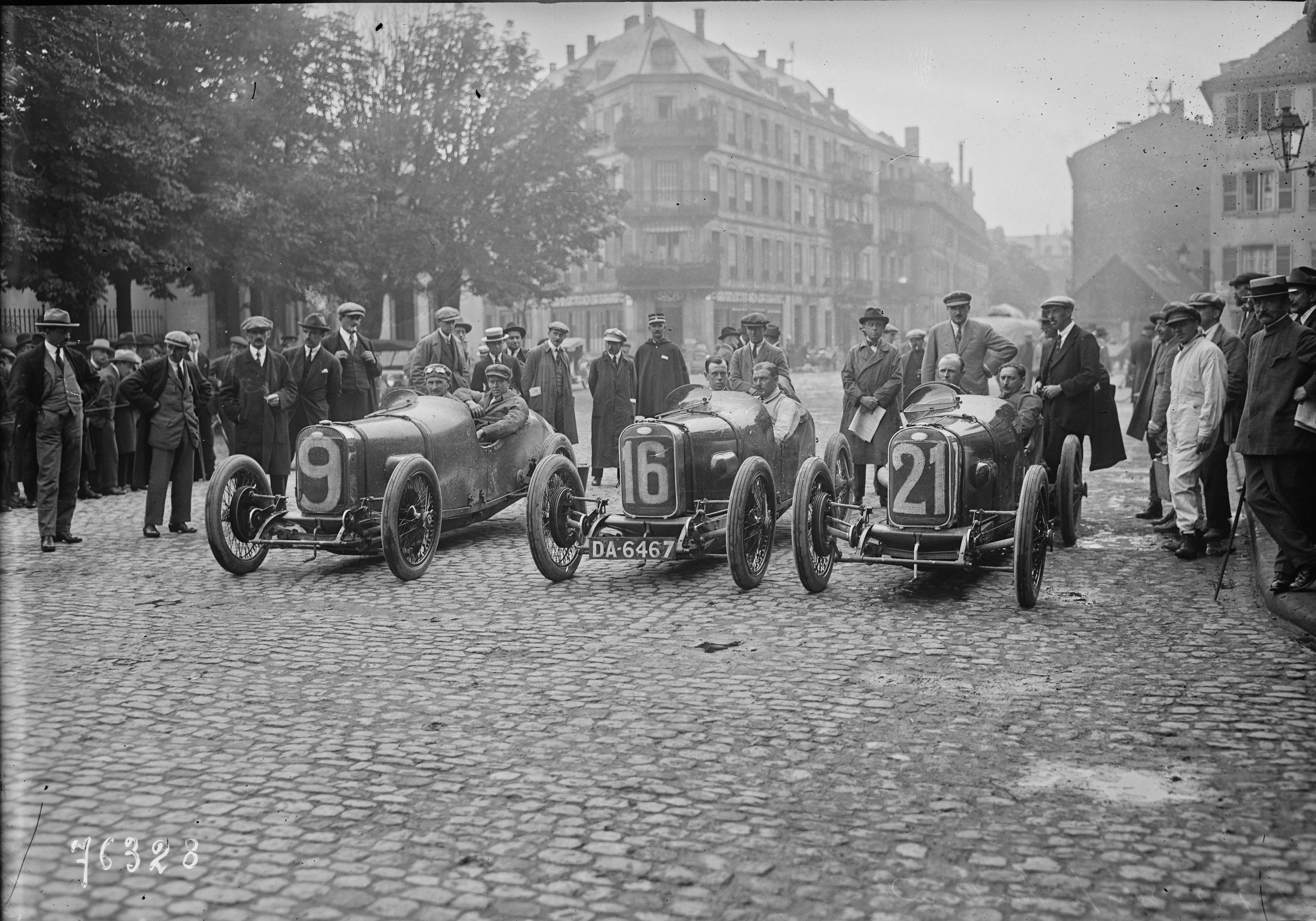 Team Sunbeam at the 1922 French Grand Prix, #9 Jean Chassagne, #16 Kenelm Lee Guinness and #21 Henry Segrave.